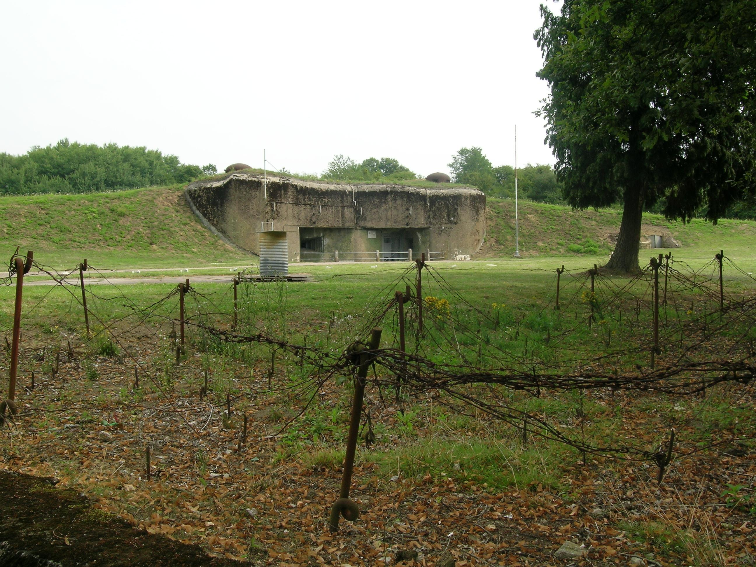 Entry block, Ouvrage de Immerhof, Maginot Line, France.